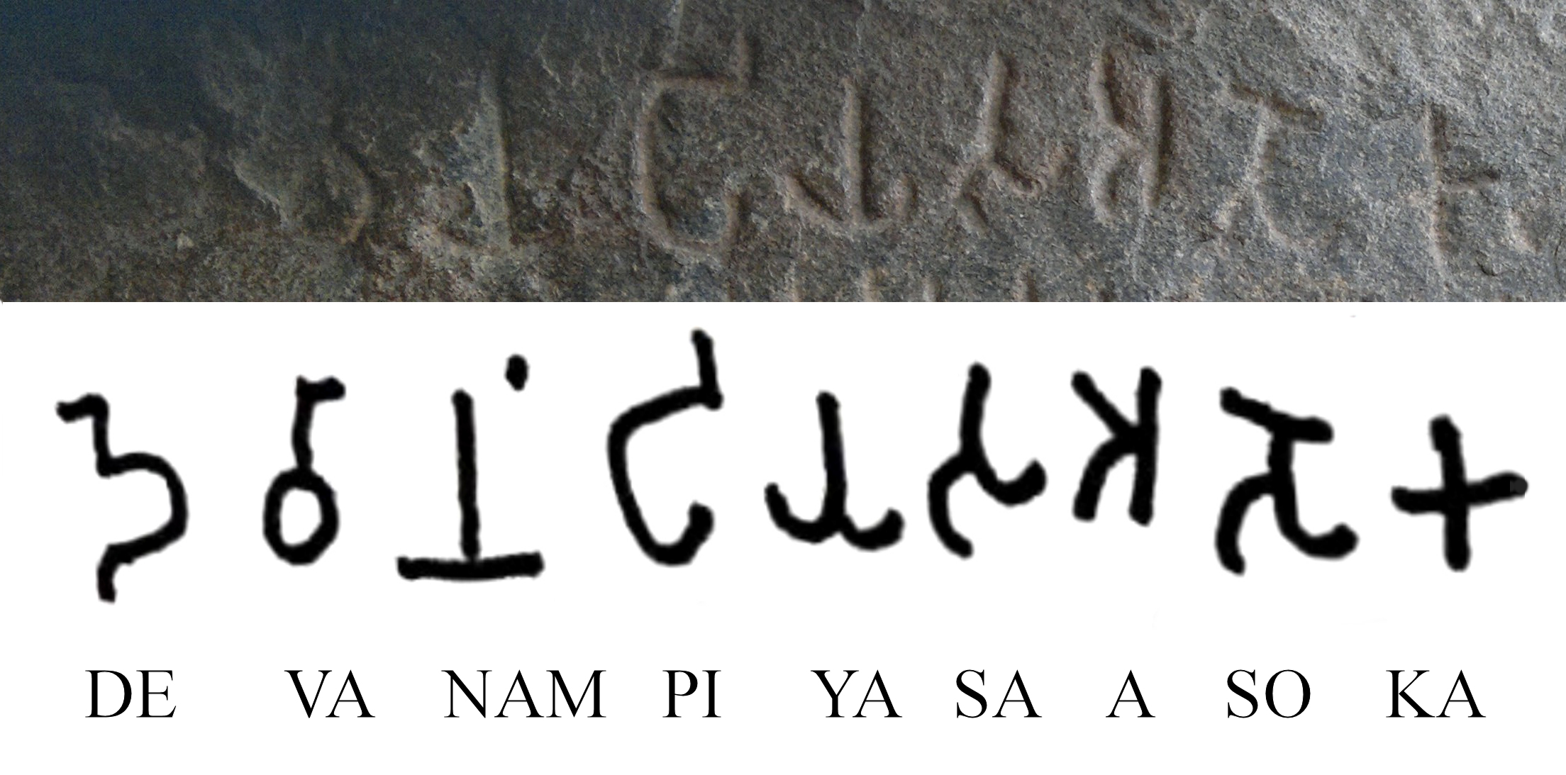 Inscription "Devanampriyasa Asoka" on the Maski Edict of Ashoka